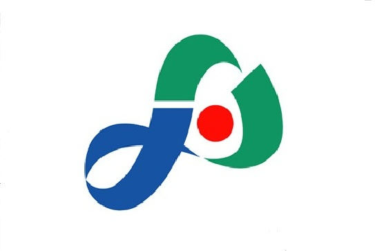 Flag of Iyo Ehime